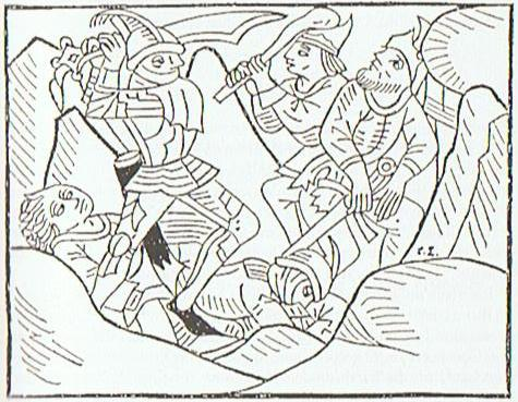 Dietleib fights with dwarves in the Hollow Mountain, killing many of them. Woodcut fom the "Straßburger Heldenbuch", ca. 1480.